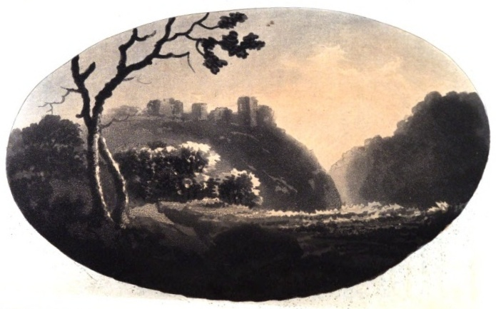 William Gilpin's watercolour sketch of Dinevawr Castle in Cardiganshire in his book Observations on the River Wye and several parts of South Wales, etc. relative chiefly to Picturesque Beauty; made in the summer of the year 1770